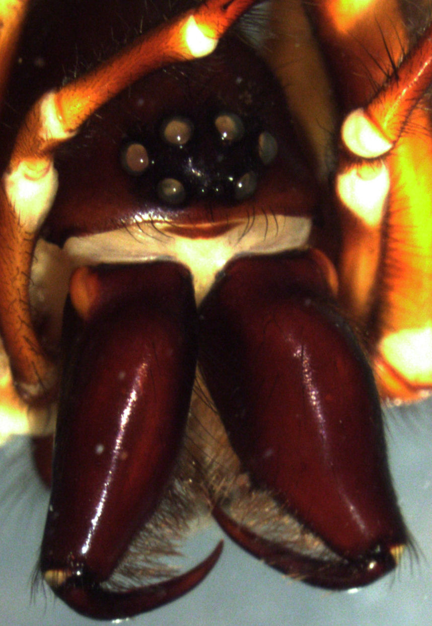 adult female Huara grossa